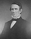 Ira Allen Eastman, US Representative from New Hampshire